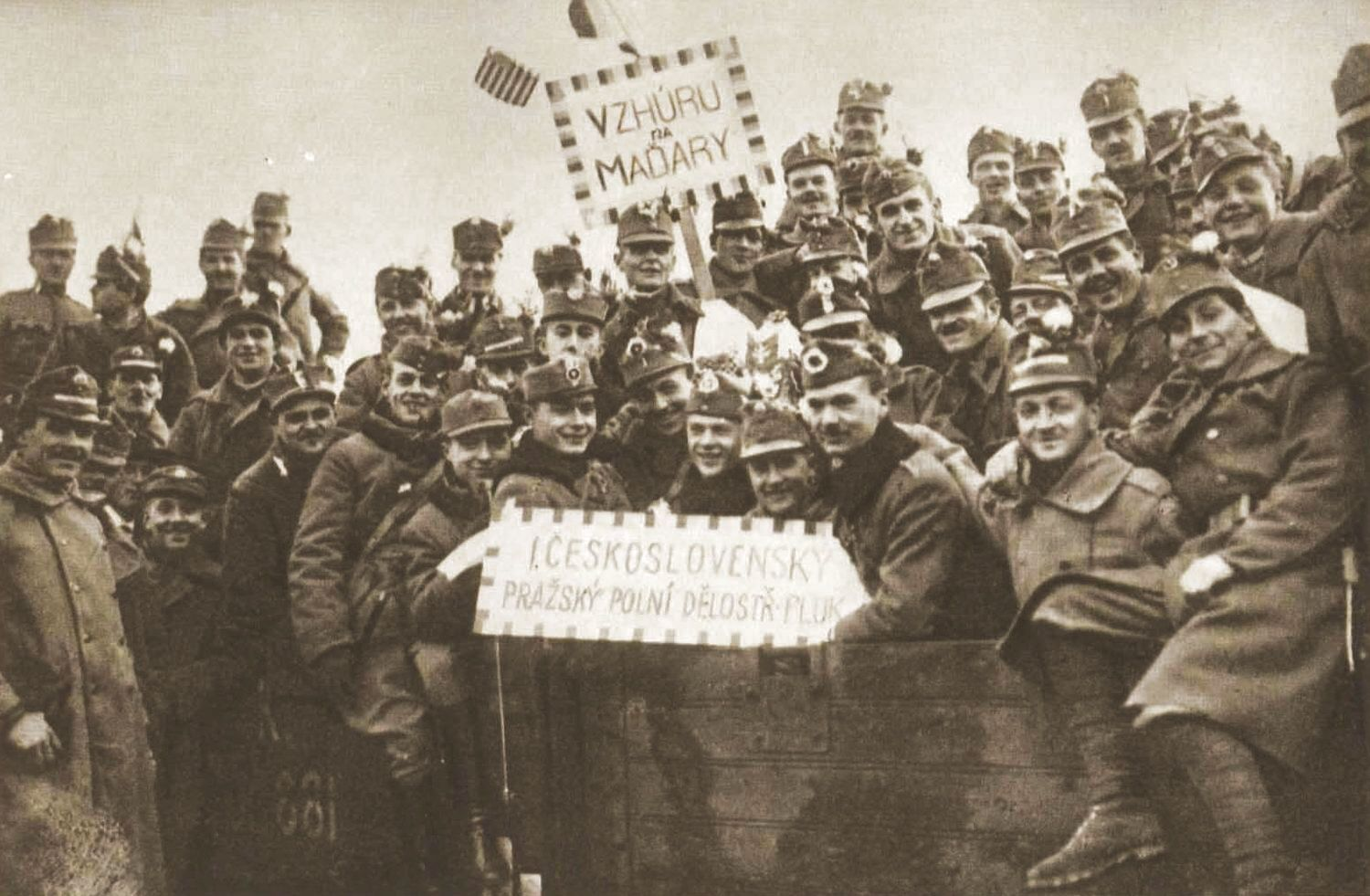 1st Czechoslovak Artillery Regiment leaving for the Hungarian Front in 1919.